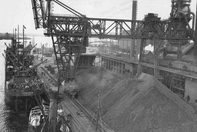 Shipment of Iron ore, Newcastle Dated: Day Month Year or No date Digital ID: 12932-a012-a012X2443000067 Rights: We'd love to hear from you if you use our photos. Many other photos in our collection are available to view and browse on our website using Photo Investigator.